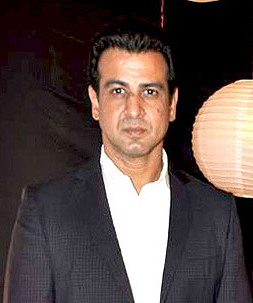 Cropped from this image - File:Ronit Roy with brother Rohit Roy at Zee Rishtey Awards 2011..jpg